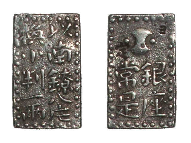 Meiwa-nanryo-2shu